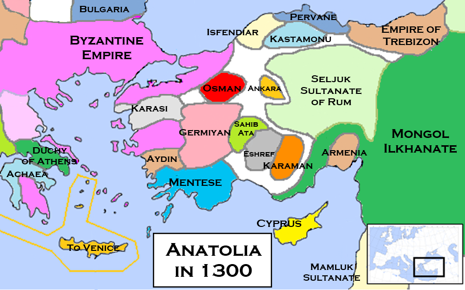 A map of the Turkish beyliks (small states) of the Anatolian Peninsula around 1300